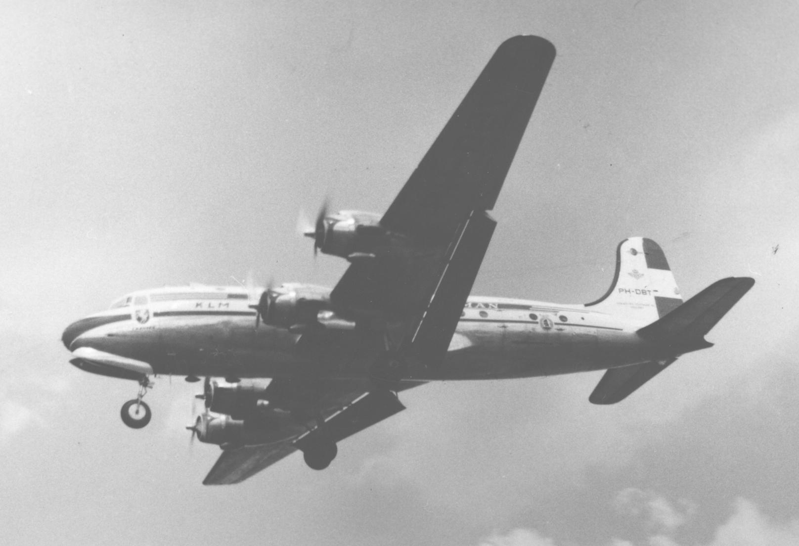 Douglas DC-4-1009 PH-DBT of KLM Royal Dutch Airlines, built in March 1946, in service in 1954